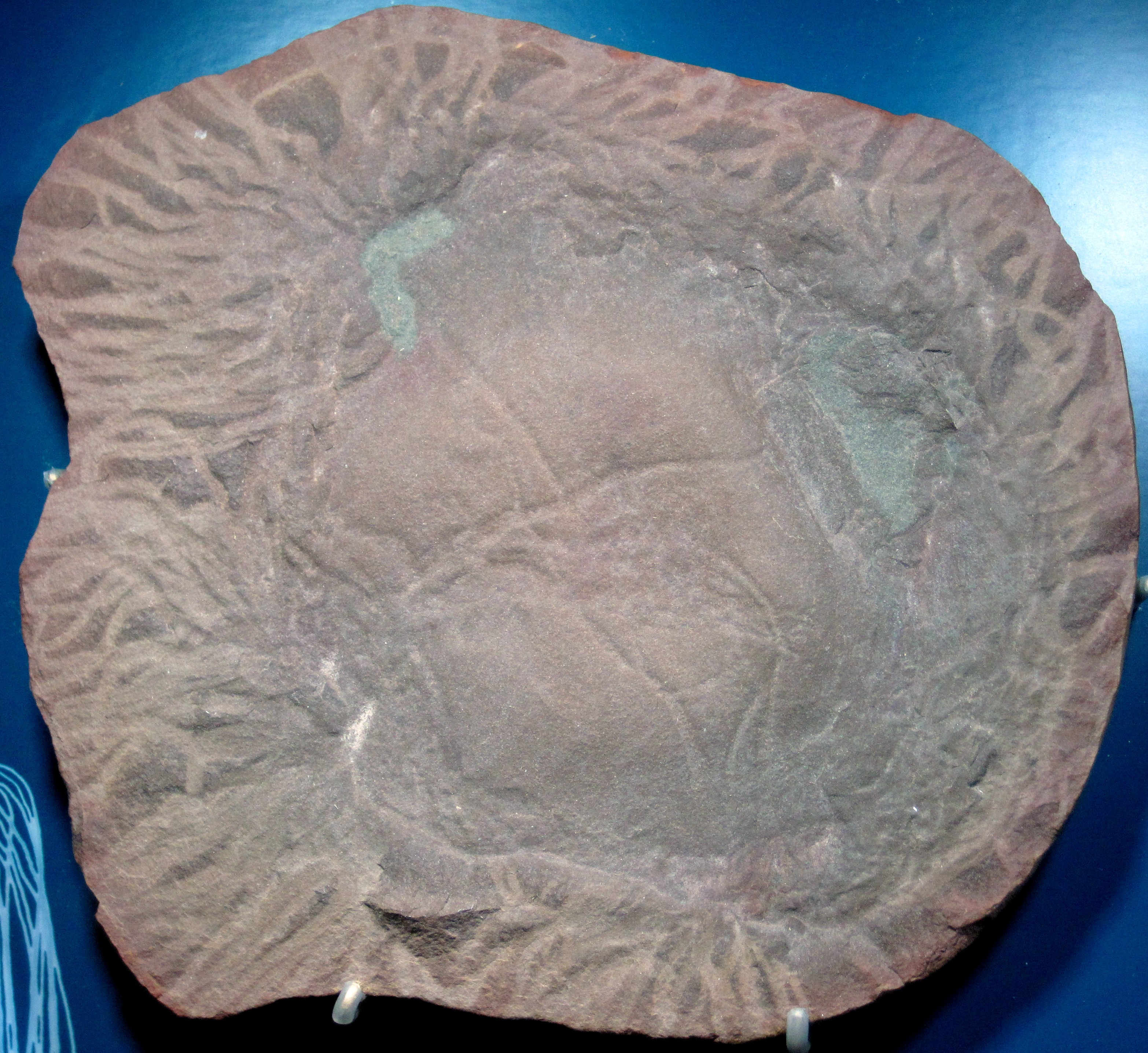 Anthracomedusa turnbulli Johnson & Richardson, 1968 fossil jellyfish from the Pennsylvanian of Illinois, USA (public display, FMNH PE 38977, Field Museum of Natural History, Chicago, Illinois, USA). One of the most remarkable soft-bodied fossil deposits (lagerstätten) on Earth is the Pennsylvanian-aged Mazon Creek Lagerstätte near Chicago, Illinois. In the Mazon Creek area, the Francis Creek Shale consists of concretionary gray shales. The Francis Creek concretions are composed of argillaceous ironstone, and can be fossiliferous or nonfossiliferous. The fossiliferous concretions contain land plants and terrestrial & marine animals, including nonmineralizing organisms. This is a rare example of a fossil cubozoan jellyfish. Cubozoans are also called “box jellyfish", in reference to their perceived subquadrate bell shape. Some of the most venomous marine animals in modern oceans include species of box jellyfish. This specimen has been compressed perpendicular to the oral-aboral axis of the jellyfish body. The central structure is the bell. Anthracomedusa had four tufts of tentacles near the periphery of the body - those are the irregularly linear structures near the margin of the concretion. Classification: Animalia, Cnidaria, Cubozoa, Carybdeida, Carybdeidae Stratigraphy: Mazon Creek Lagerstätte, Francis Creek Shale Member, Carbondale Formation, Desmoinesian Stage (= Westphalian D), upper Middle Pennsylvanian Locality: coal mine dump pile near Essex, northern Illinois, USA